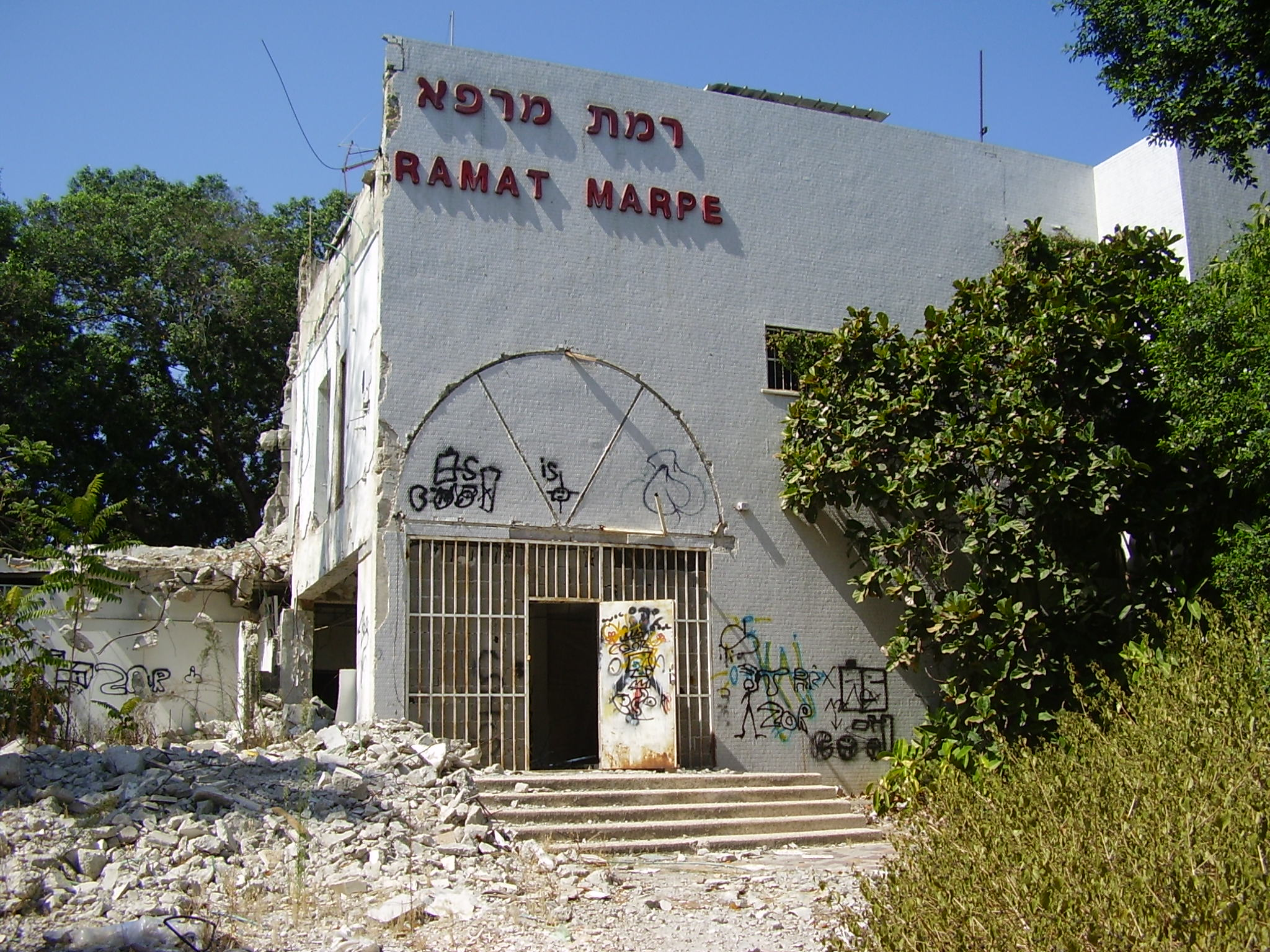 ramat marpe hospital in ramat gan